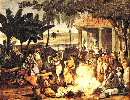 Lundu dance in Brazil